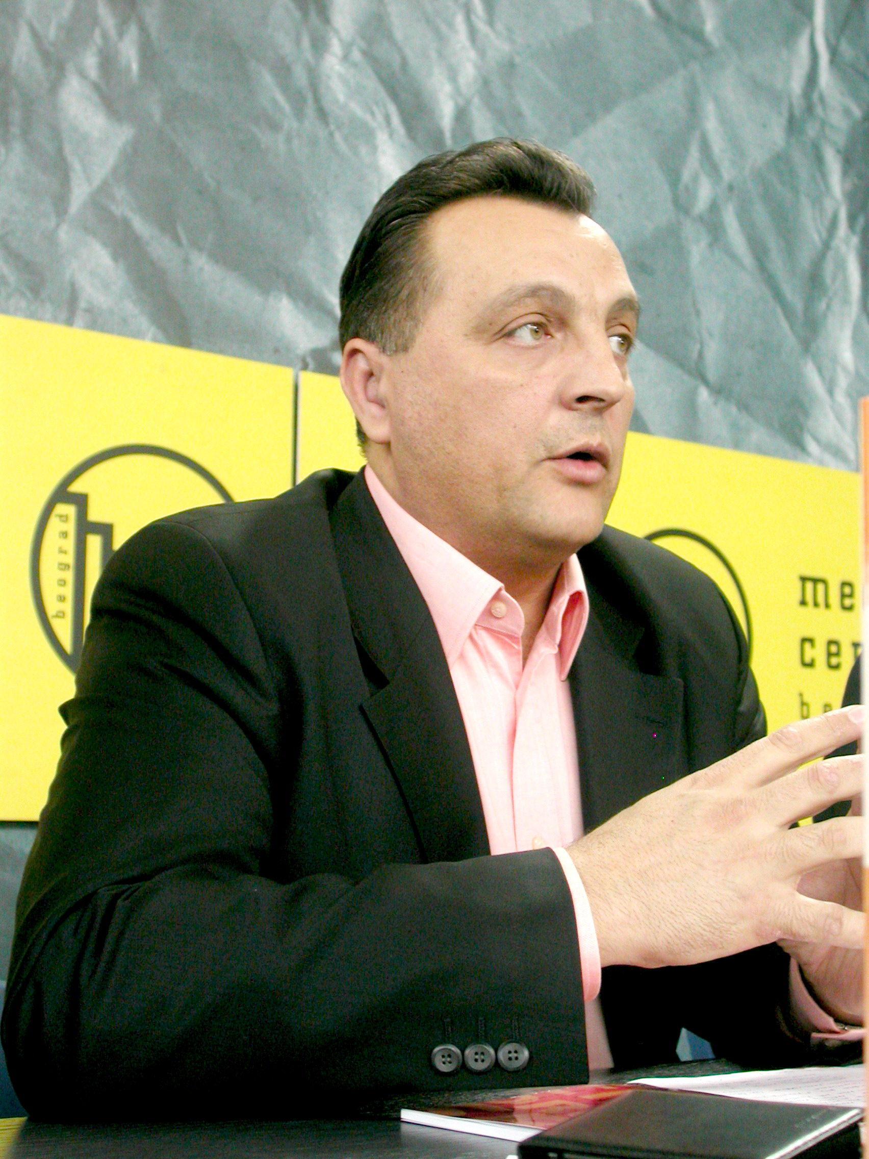 Zoran_Živković